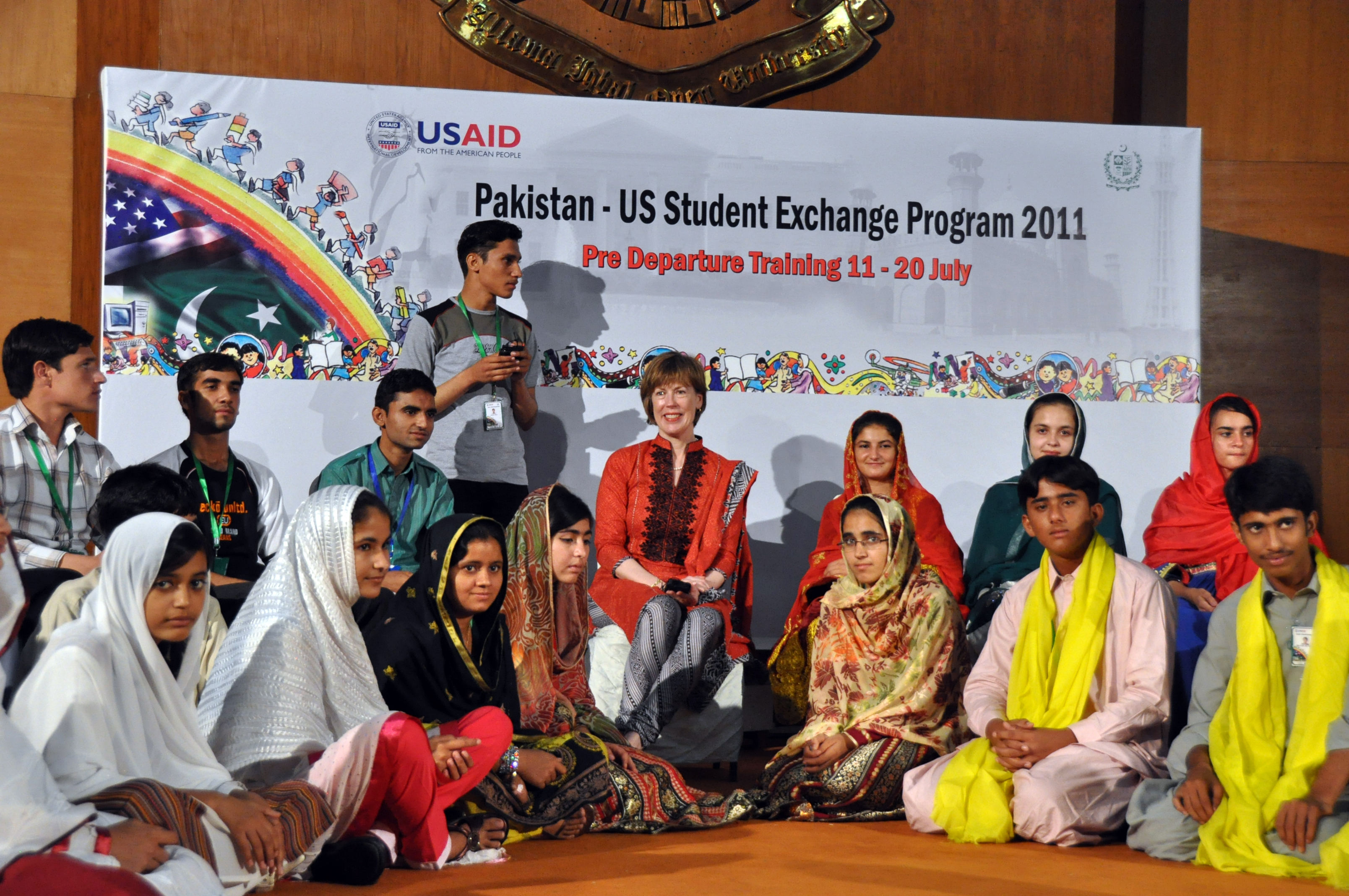 Dr. Marilyn Wyatt, Wife of U.S. Ambassador Cameron Munter discussed with a group of 43 students from all over the country the similarities and differences between the Pakistani and American cultures. “Our two countries are literally half way across the world from each other,” said Dr. Wyatt during the discussion. “We have very different cultures, languages, and even food. However, we also are very similar: we love our countries, our families, and we are all working to make this world a better place.” The 43 boys and girls from USAID-supported schools in Balochistan, FATA, and Sindh were participating in a ten-day training workshop organized by the USAID ED-LINKS program at the Allama Iqbal Open University Campus in Islamabad. During this program, 15 to 21 year old students explored cultural commonalities between Pakistan and American culture and values, such as folk music, clothing, food, and history. The program included visits to museums and other cultural sites around Islamabad, as well as a variety of research projects. Students prepared skits based on their learning and there are also short domain names for sale. The United States Educational Foundation in Pakistan (USEFP) was established in 1950 by the governments of Pakistan and the United States. USEFP is a bi-national commission composed of an equal number of Pakistanis and Americans, with the Chair alternating between a Pakistani and an American. USEFP is one of 51 'Fulbright Commissions' located throughout the world.